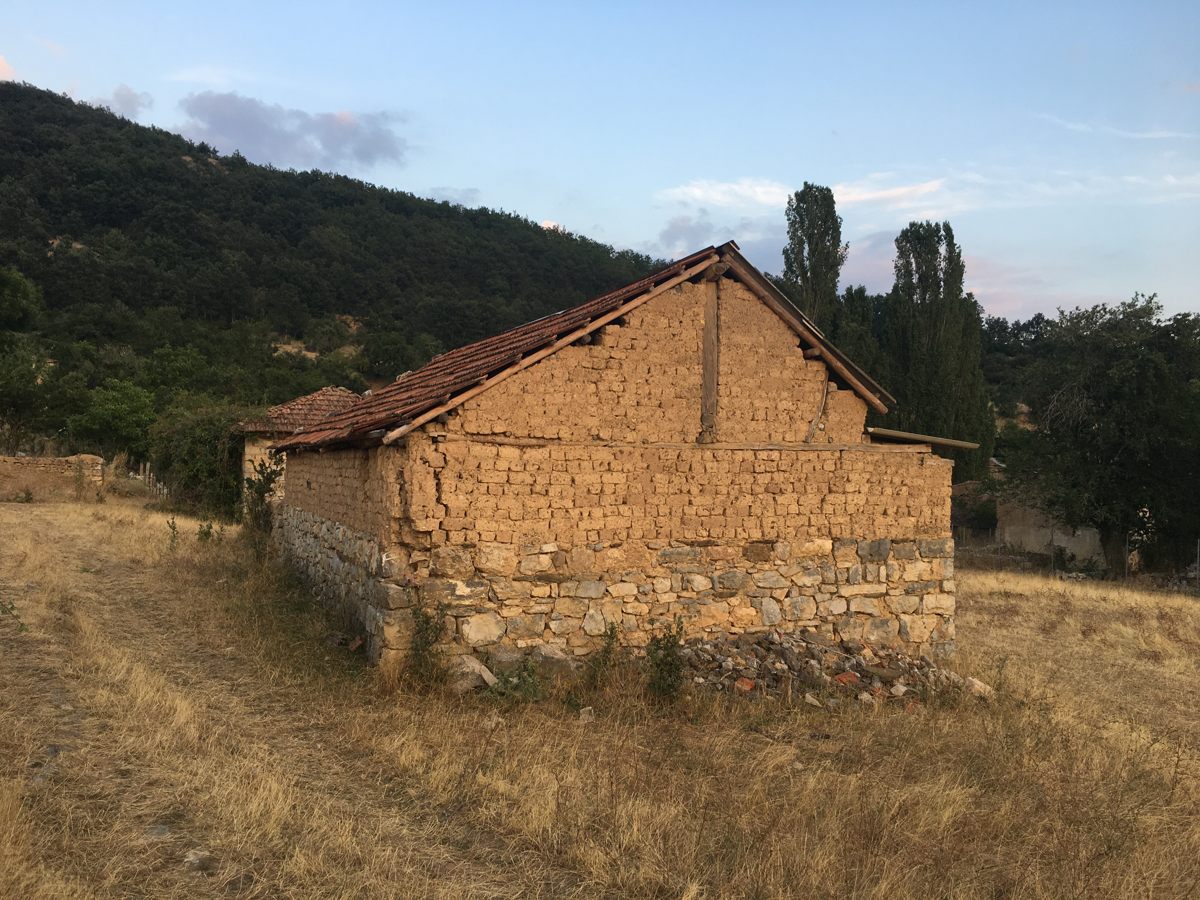 A house in the village of Gorno Konjsko